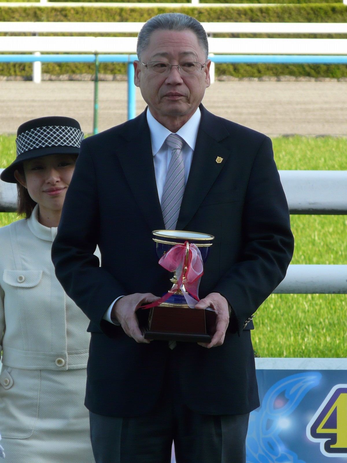 Hironori-Kurita20100425